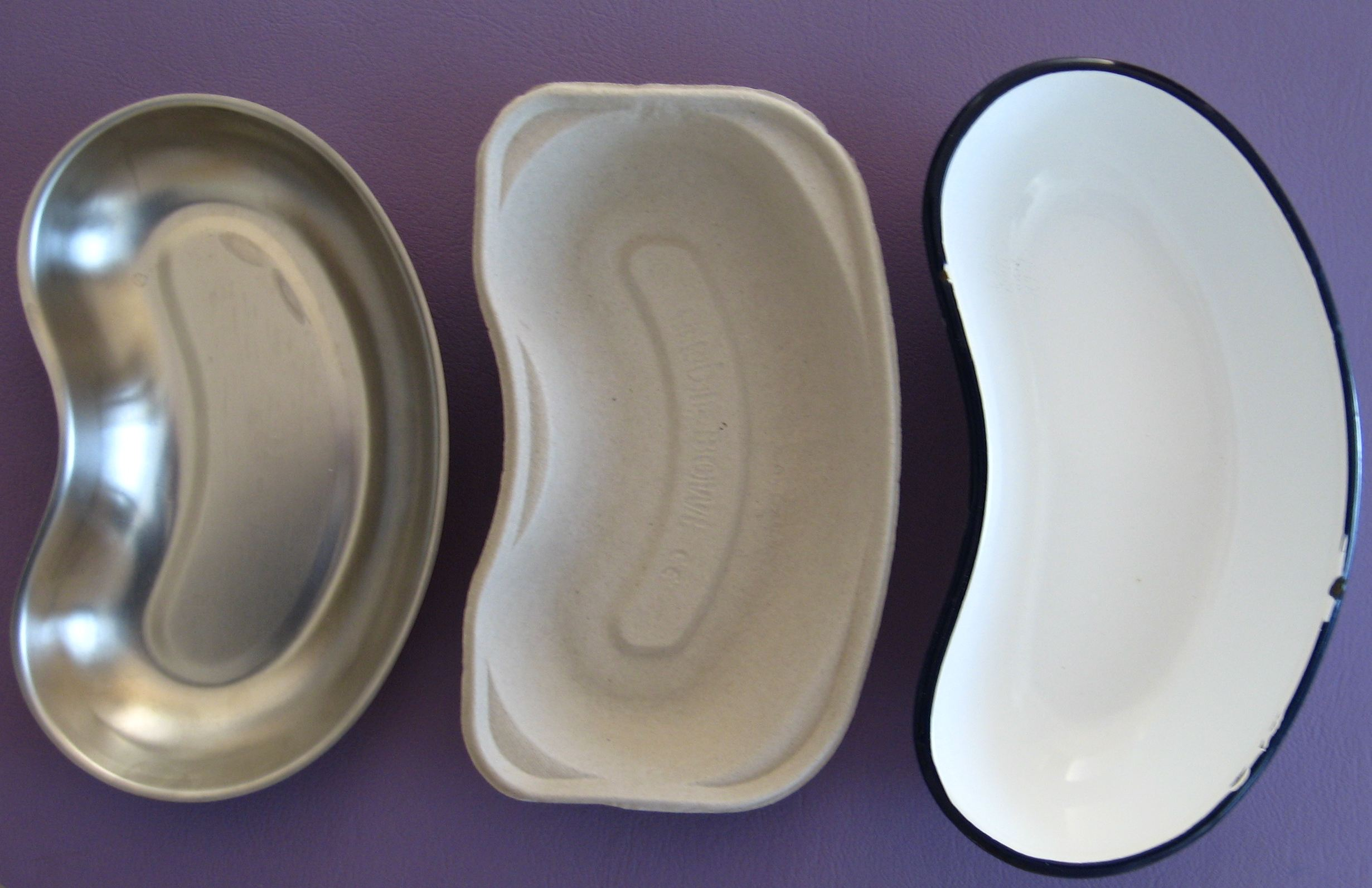 Kidney dishes made of stainless steel, cardboard, enameled iron